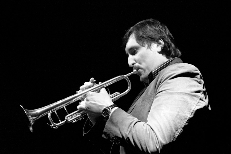 Małek Jerzy.